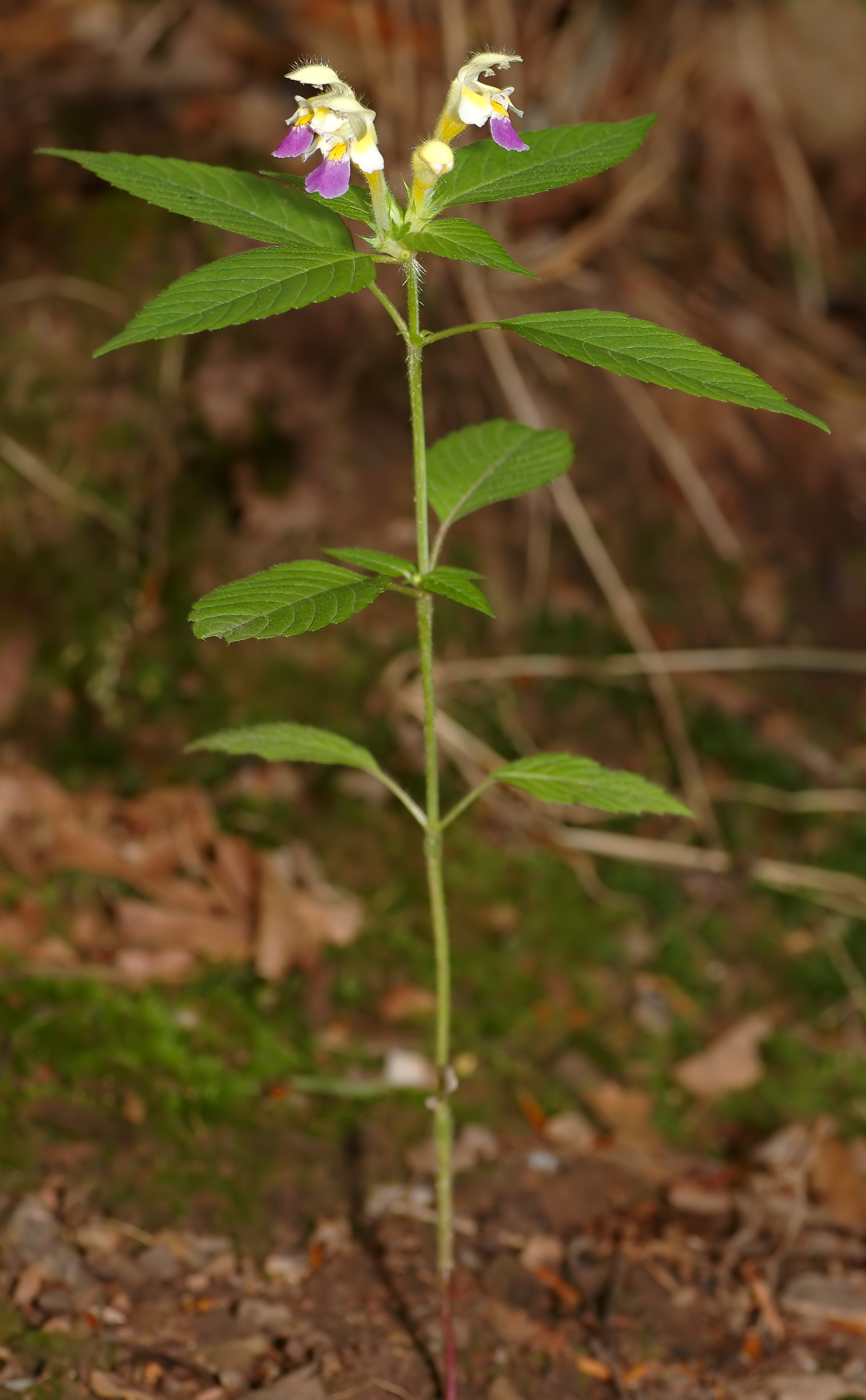 This image shows a Large-flowered Hemp-nettle plant (Galeopsis speciosa). Thanks to Franz Xaver for identifying this plant.